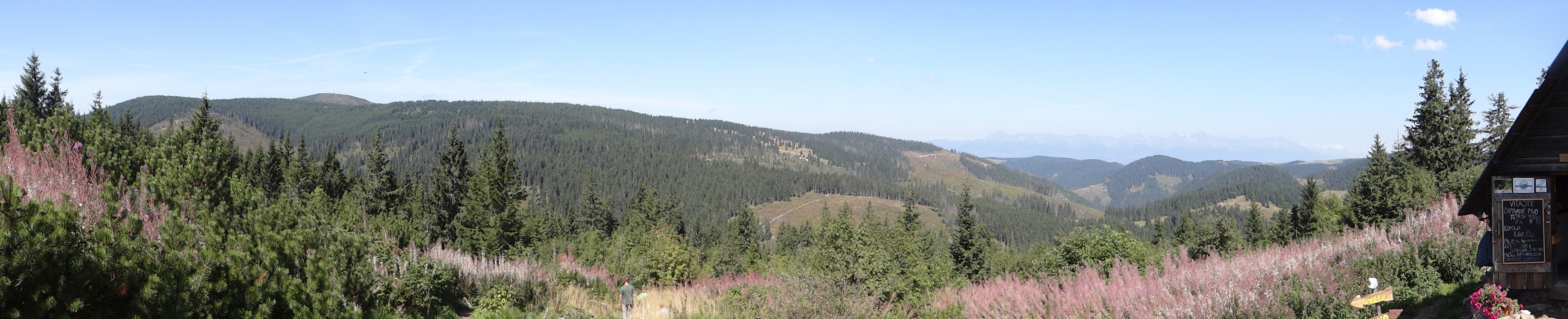 Views from Andrejcová